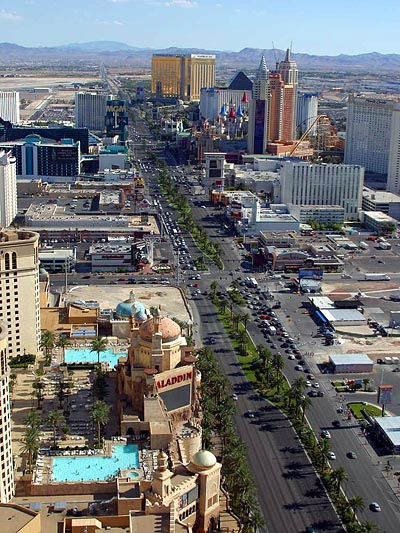 The Strip in Paradise, Nevada, USA. CREDIT: Jon Sullivan. COPYRIGHT: Quote:This image is public domain. You may use this image for any purpose, including commercial. PICTURE PREPARED for Wikipedia by Adrian Pingstone in June 2004.